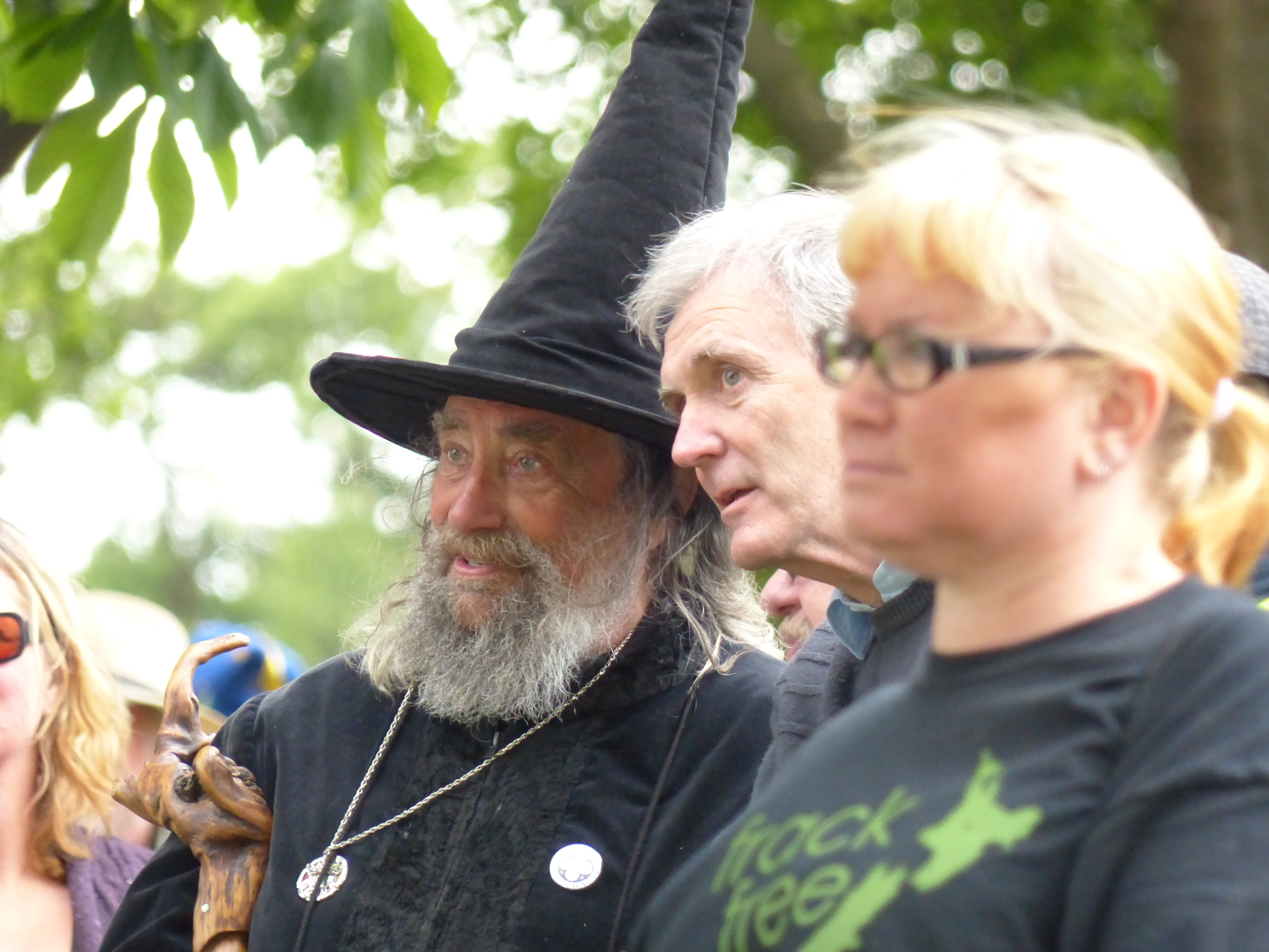 The Christchurch Wizard (officially appointed) is protesting at the loss of earthquake damaged heritage sites, the Anglican cathedral in particular, through demolition.